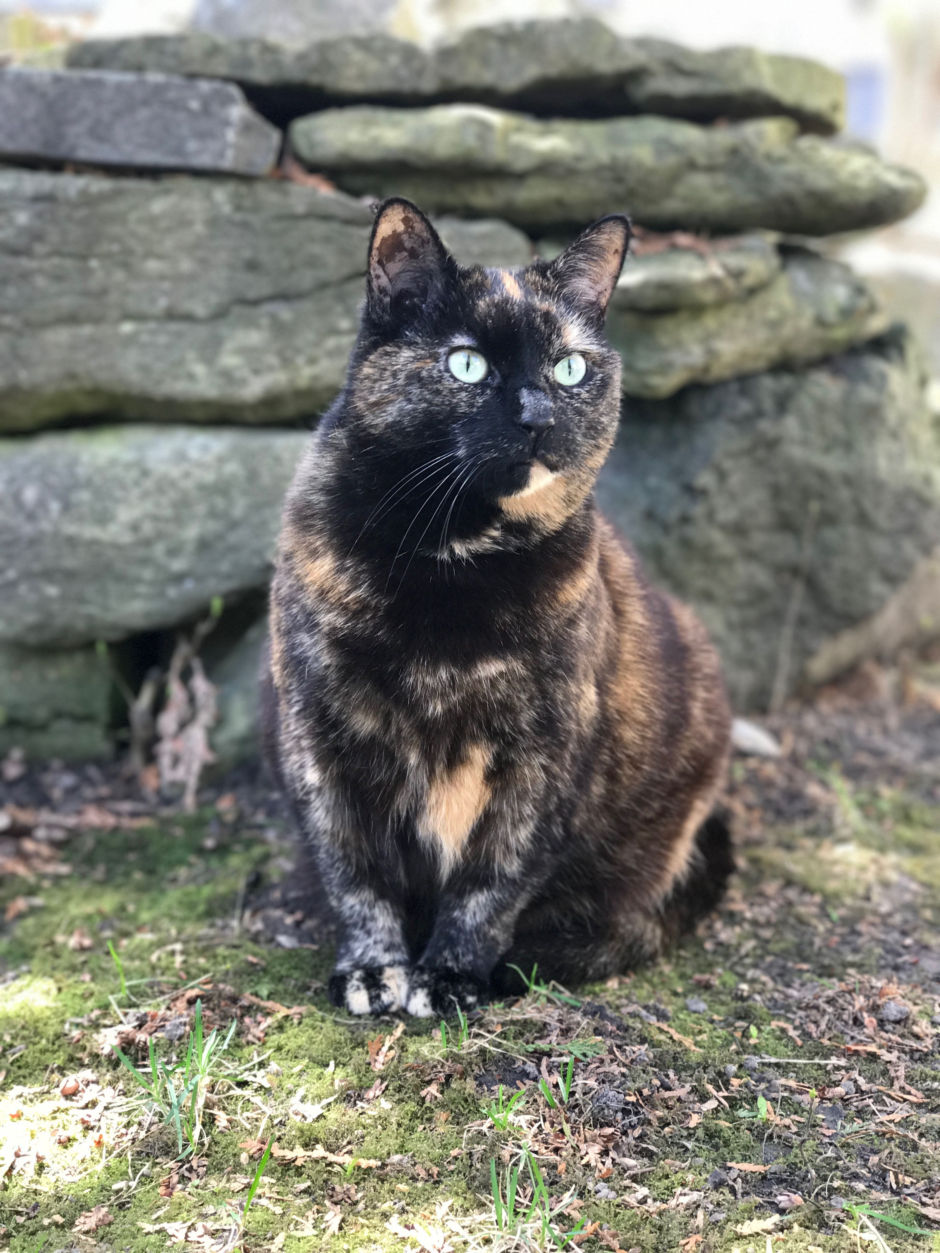 Short-haired tortoiseshell cat outside